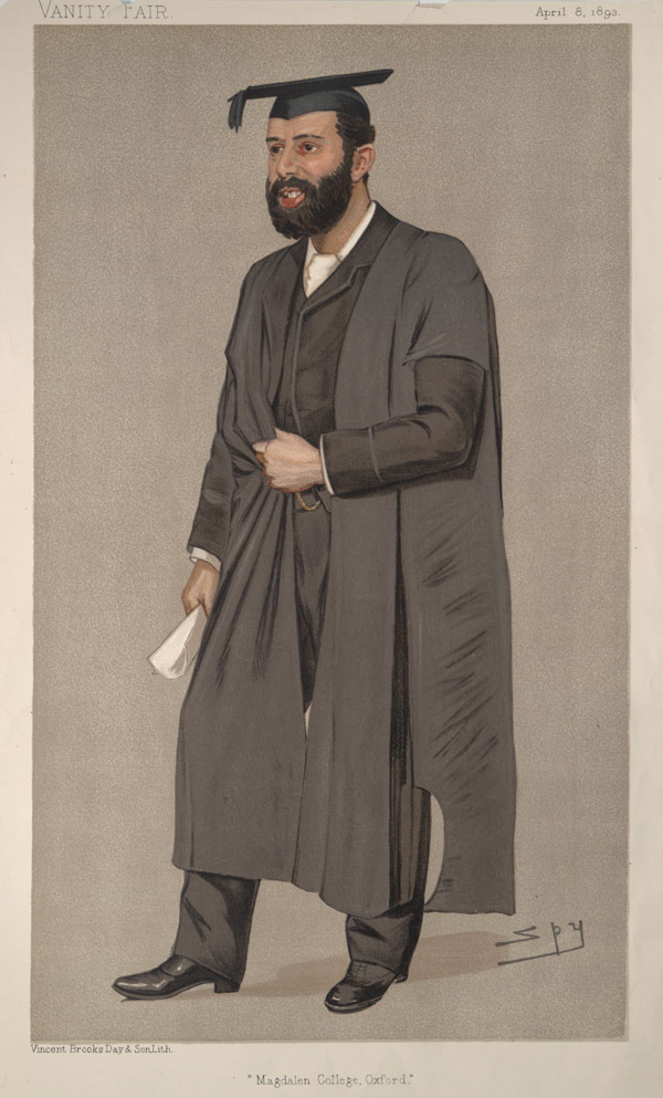 Men of the Day No.561: Caricature of The President of Magdalen College, Oxford (Thomas Herbert Warren). Caption reads: "Magdalen College"